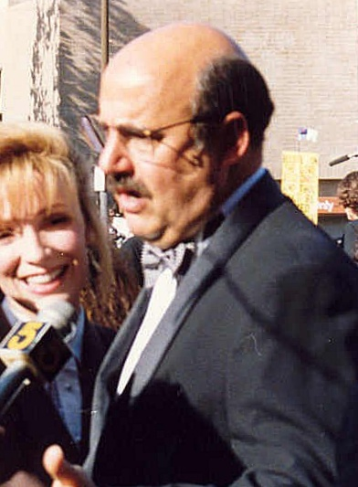 Jeffrey Tambor at the Emmy Awards 1991